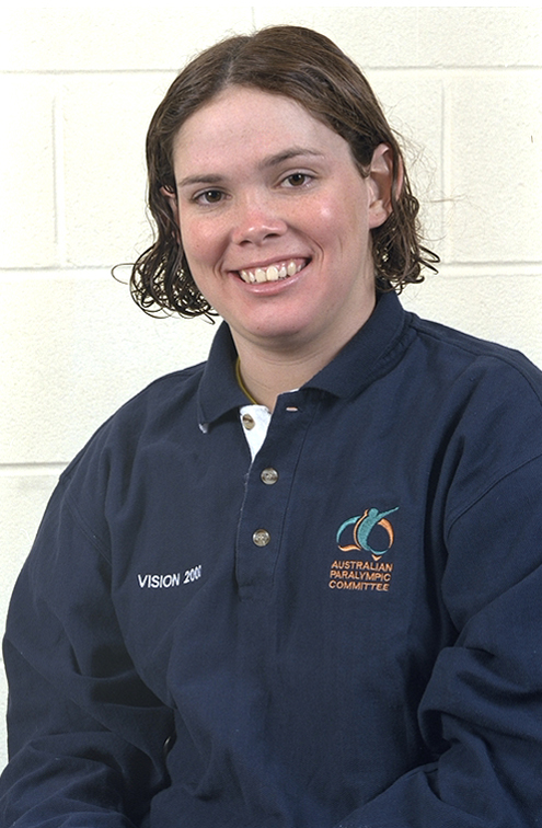 Portrait of Australian swimmer Amanda Fraser, 2000 Australian Paralympic Team athlete